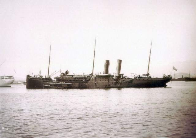 Naval ship of Brazil.